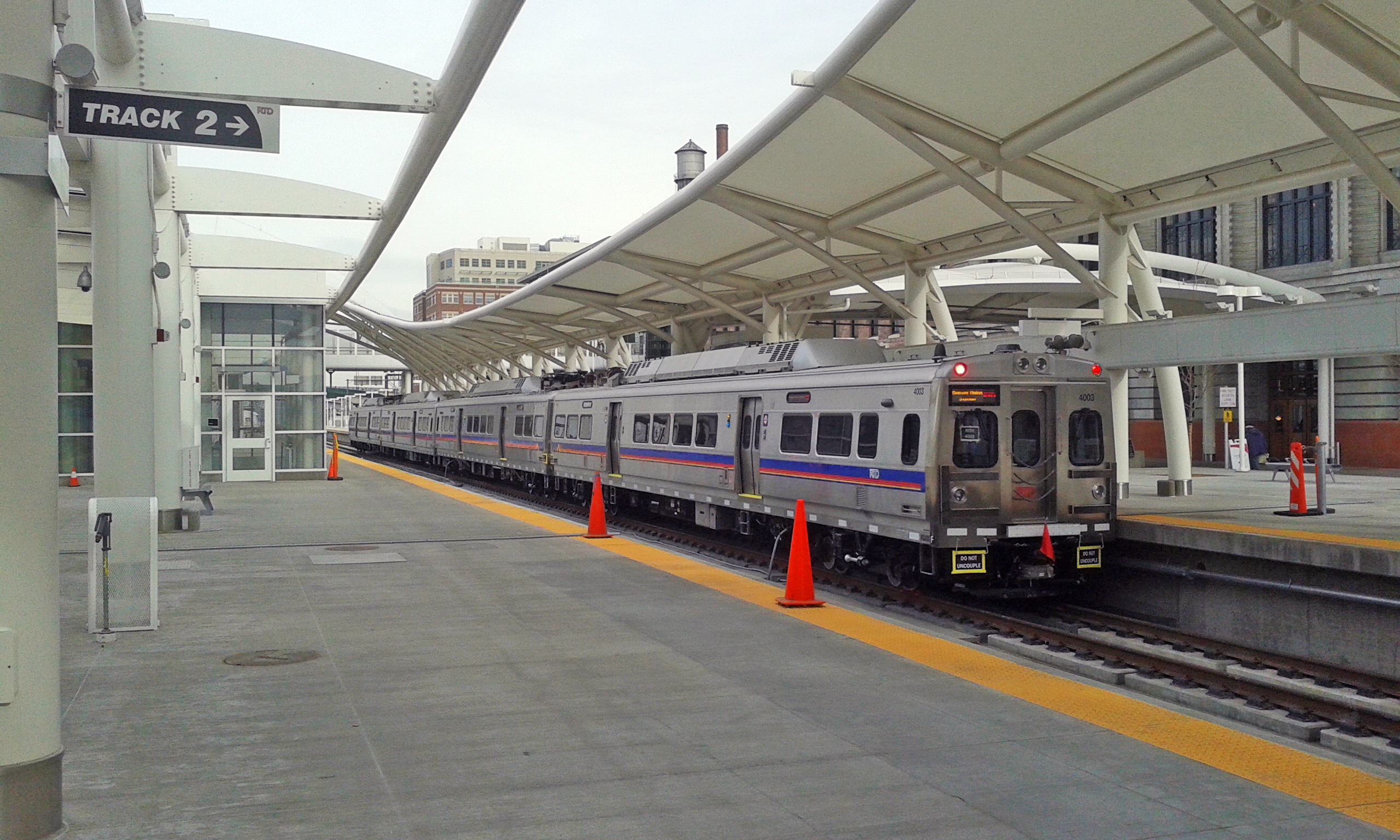 Train on display at Denver's Union Station during RTD Commuter Rail Open House, Wednesday-Saturday(12/3-12/6/14) 11am-7pm.